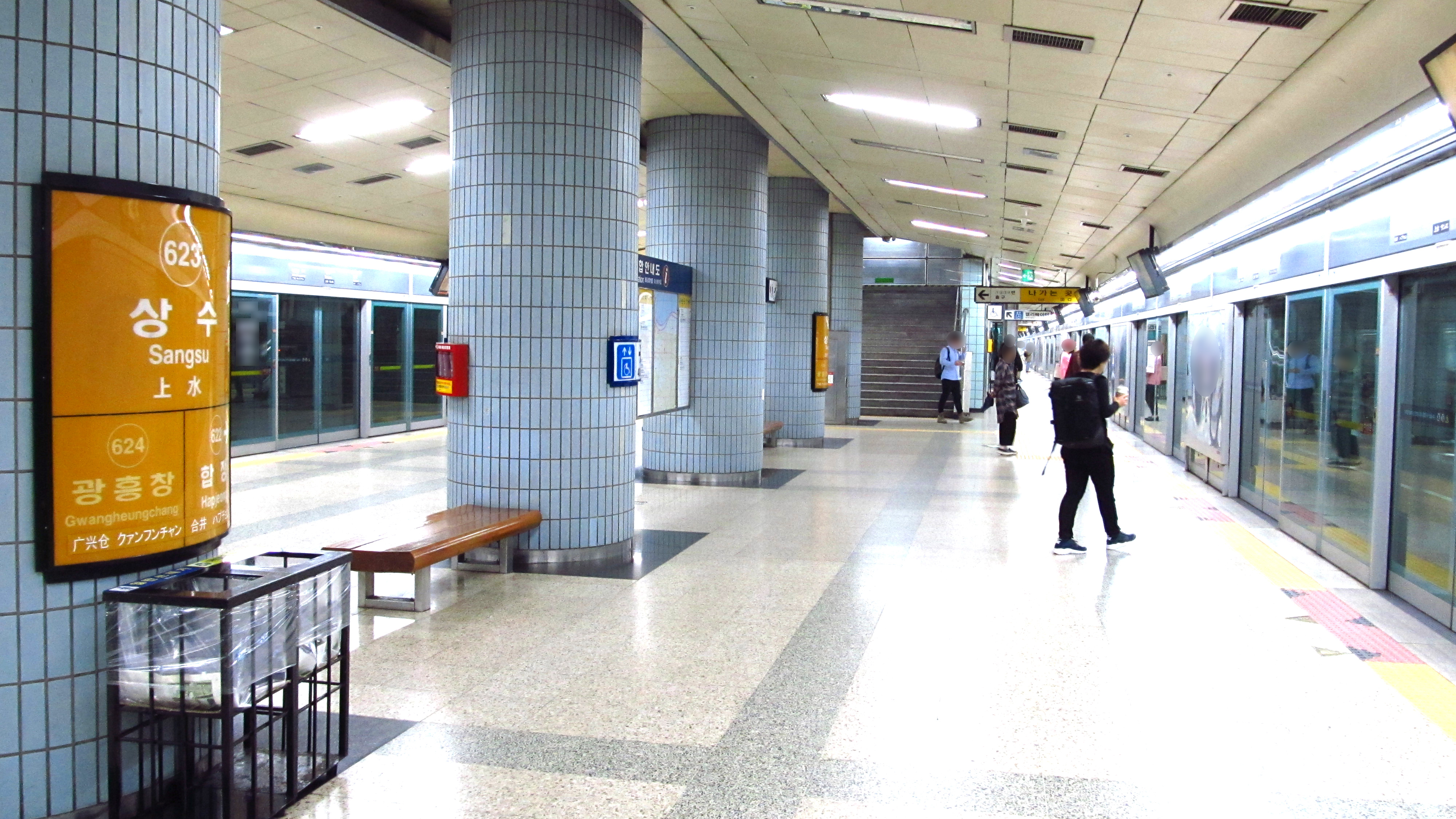 The platform at Sangsu Station on Seoul Subway Line 6 in Mapo-gu, Seoul, Republic of Korea(South Korea)